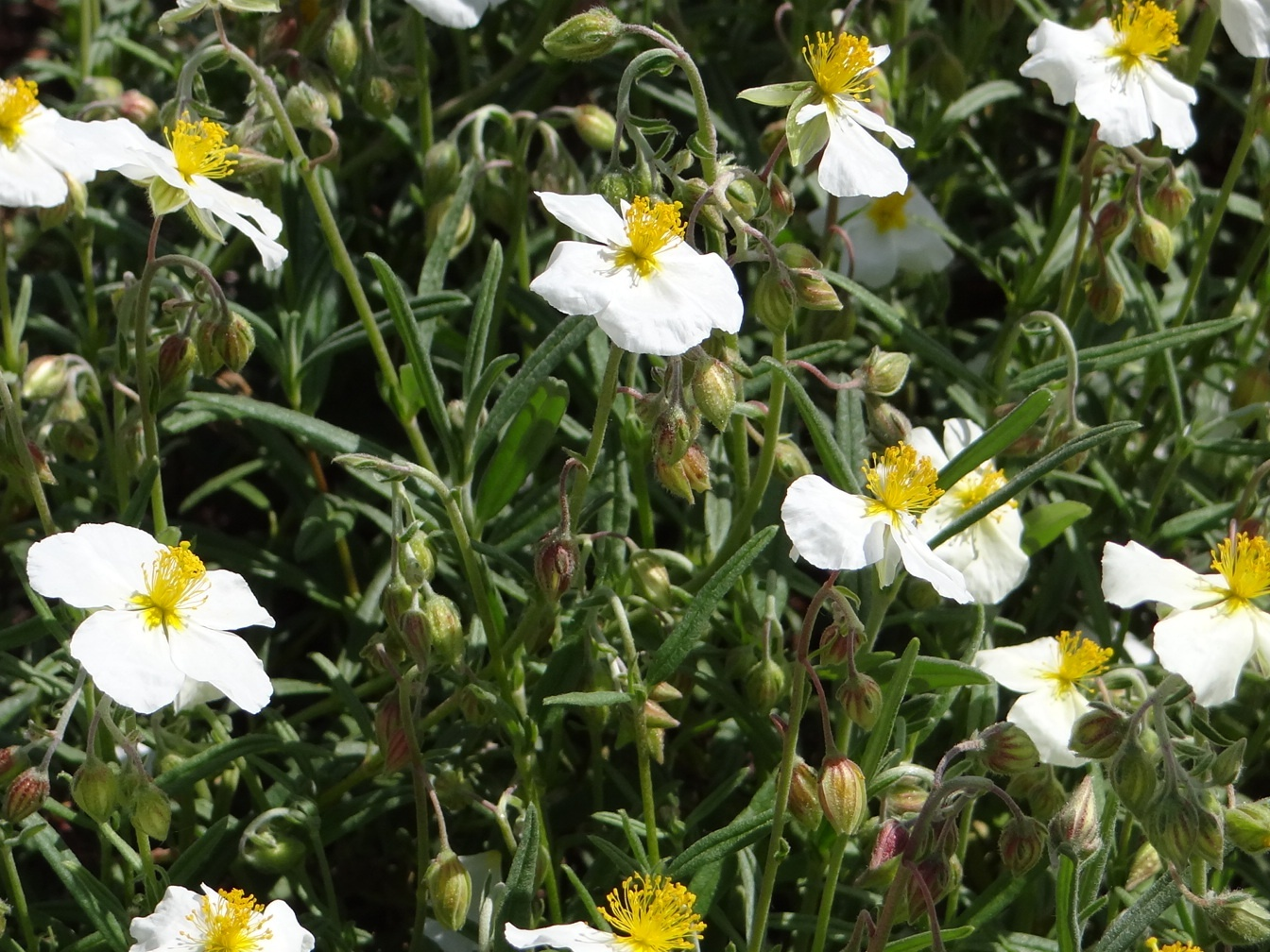 Helianthemum apeninum